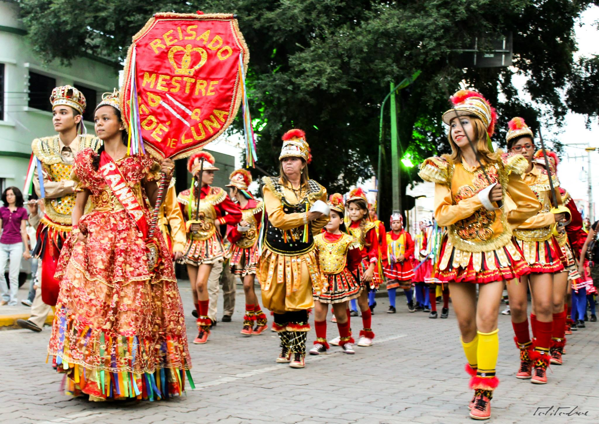 Reisado do Mestre Dedé de Luna. Folia de Reis em Crato - Ceará, Janeiro de 2015